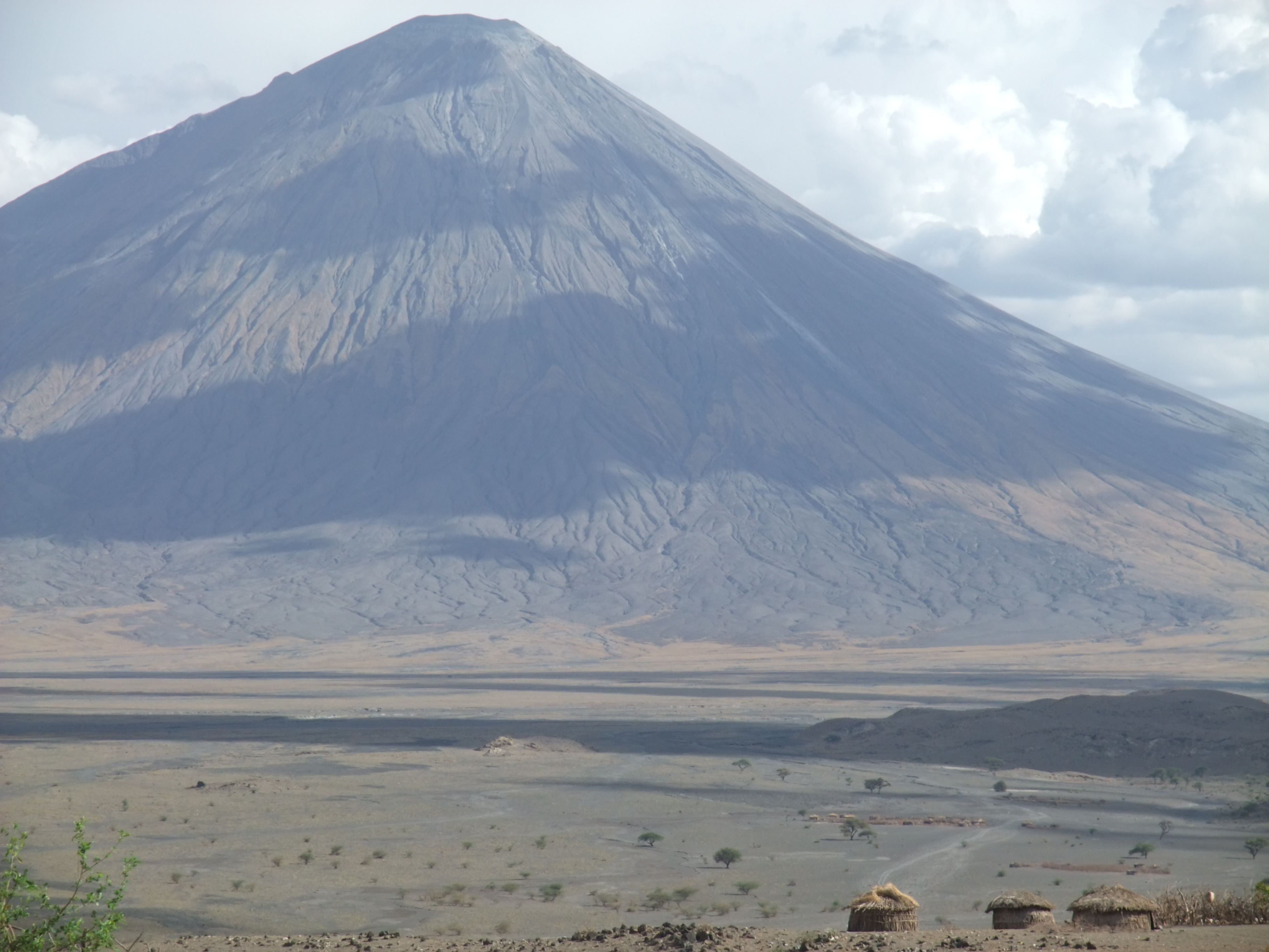 Ol Doinyo Lengai, Tanzania, October 2011